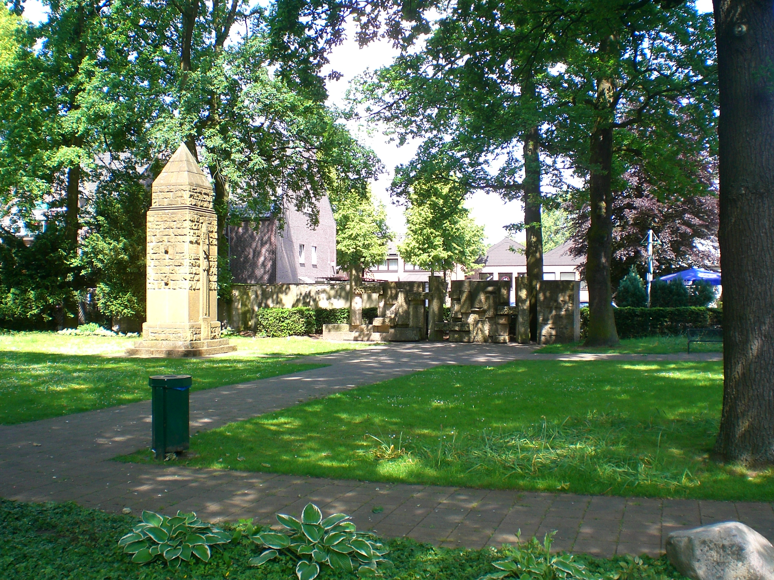 Park with memorials in Verl.